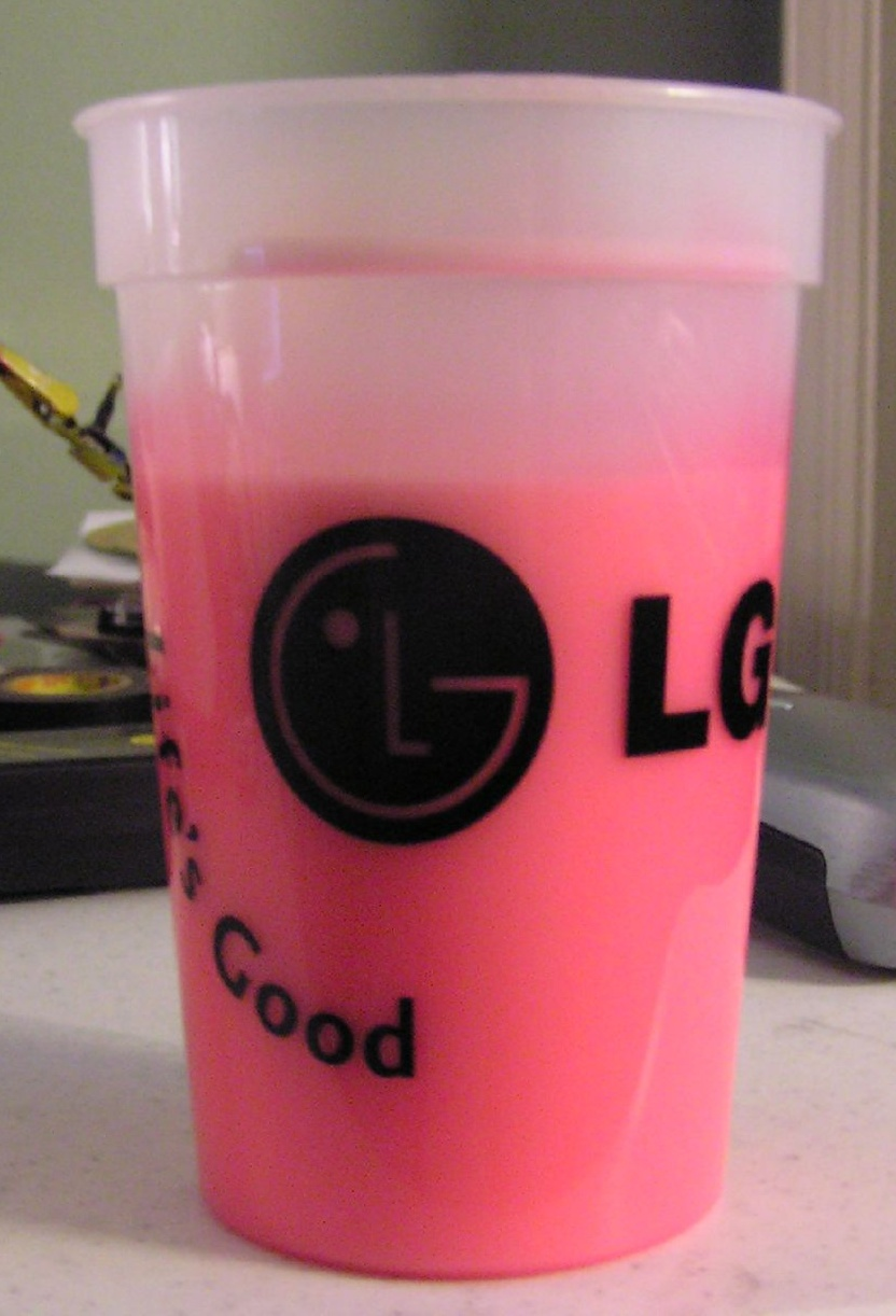 LG gave away these cups at Digital Life 2006 in NYC